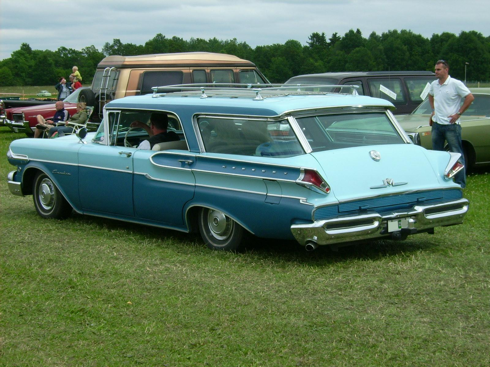 1957 Mercury Commuter 4-door hardtop station wagon at Power Big Meet 2007, Västerås, Sweden